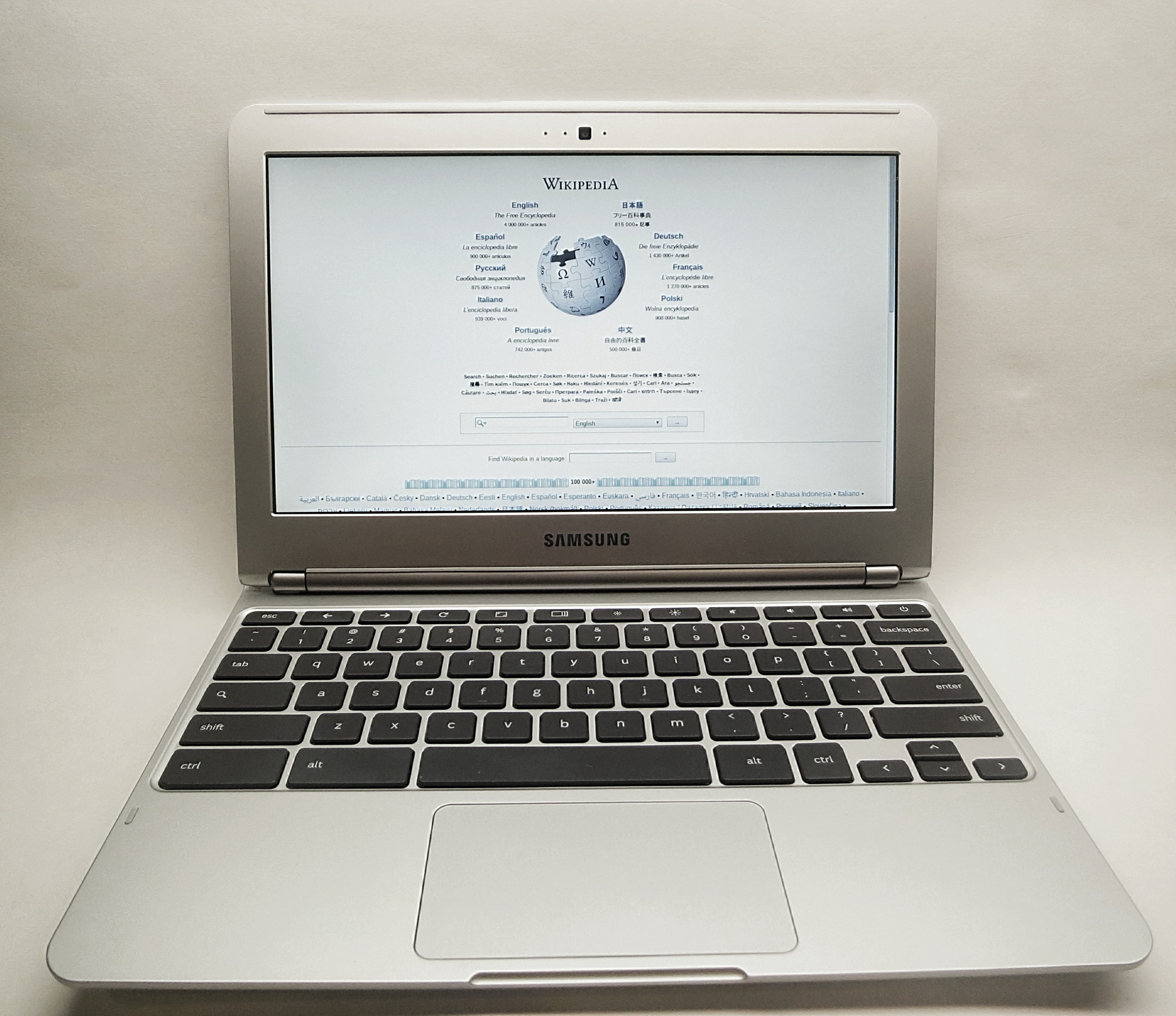 Lightboxing attempt of Samsung Series 3 Chromebook.